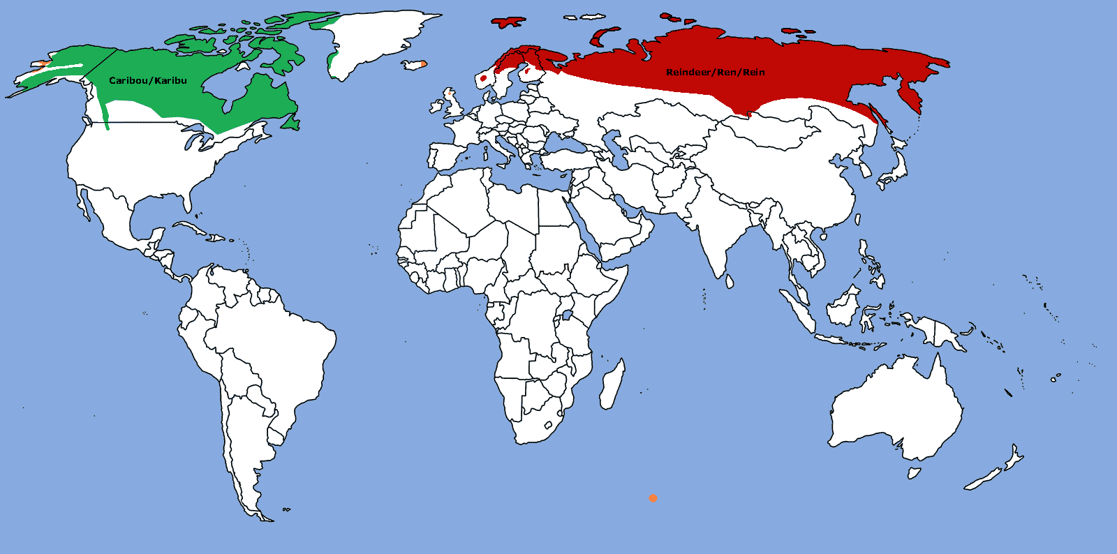 Map: Distribution of Rangifer tarandus (Caribou/Reindeer) Red - Reindeer (orange: introduced populations) Green - Caribou